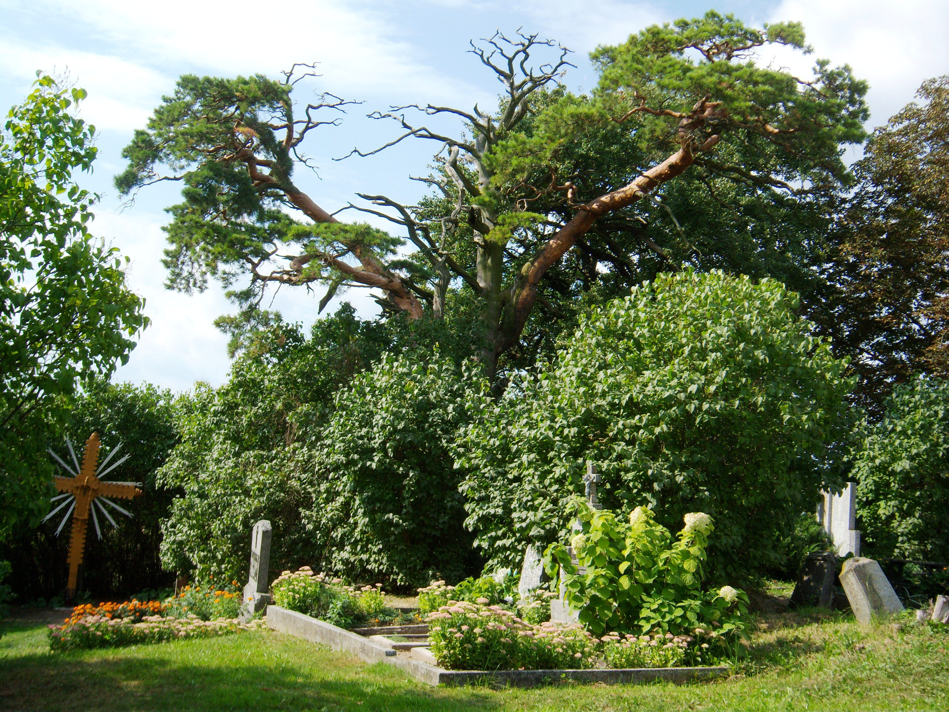 Pine tree, Antakalnis, Kaišiadorys District, Lithuania